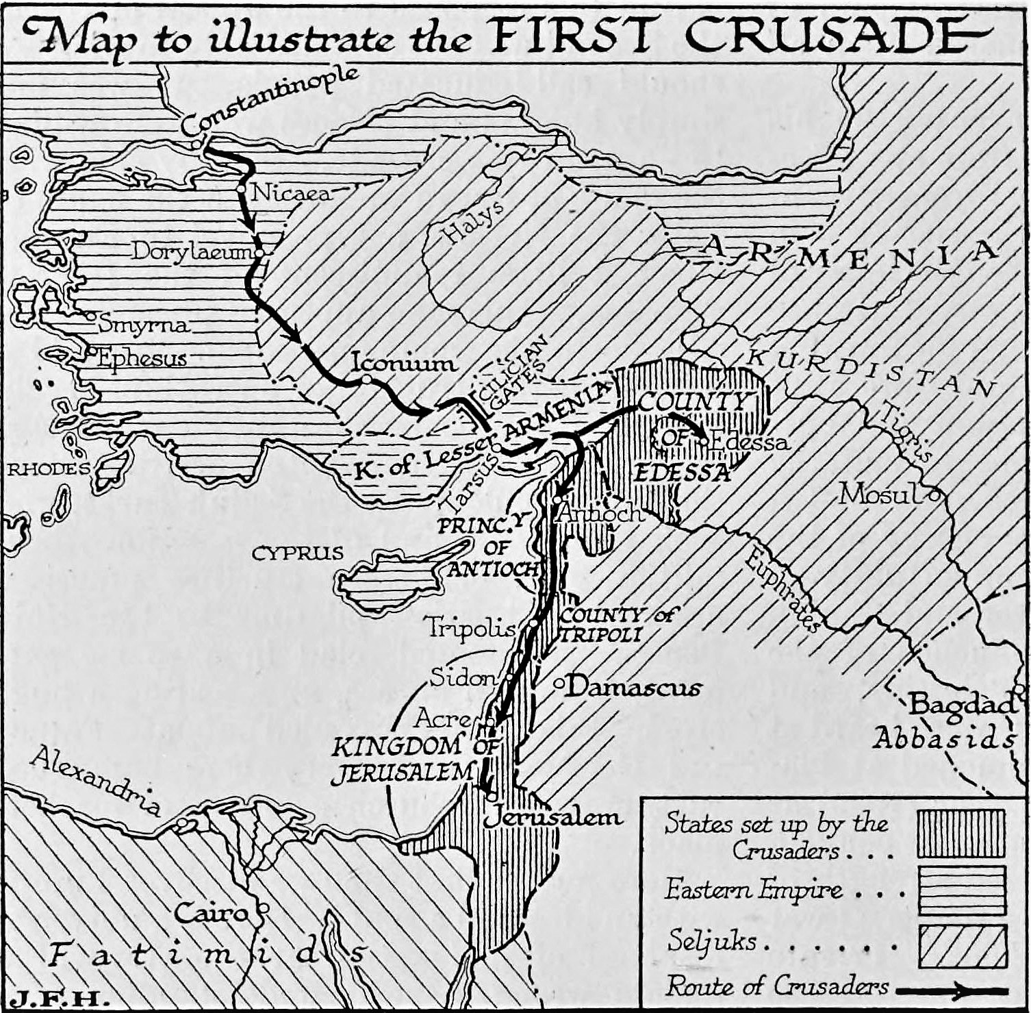 Illustration from page 342 of The outline of history; being a plain history of life and mankind, the definitive edition revised and rearranged by the author, by H.G. Wells, illustrated by J. F. Horrabin, "Map to illustrate the First Crusade"